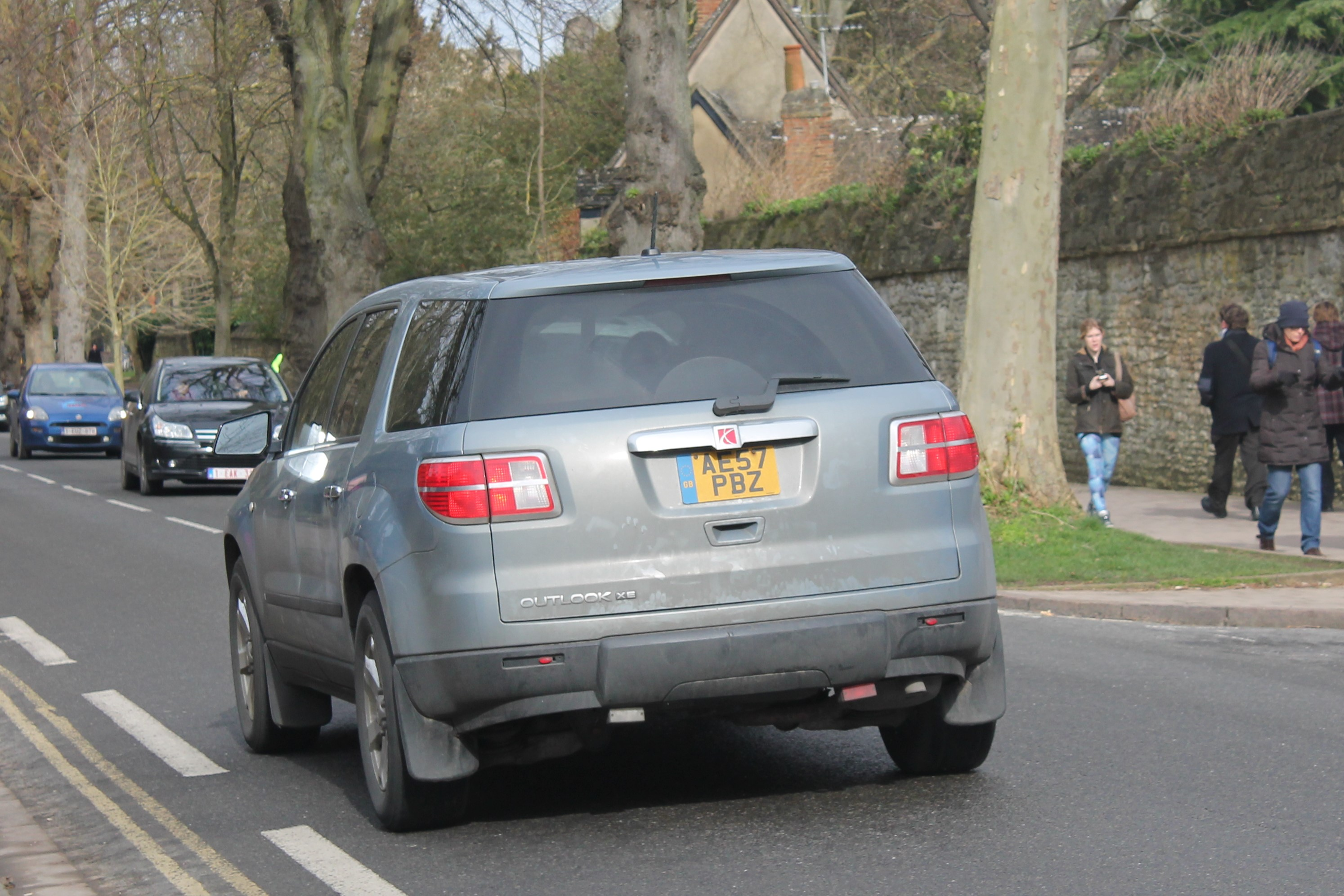 Seemingly quite hard to find US cars in the UK, this rather unusual import is an example of what they call a "crossover SUV" over the pond. Most probably owned by a member of the US Armed forces, this one was spotted over in Oxfordshire, where several bases are. Many US imports have this AE suffix. This car is powered by a 3.6 litre V6 engine. There can't be many Saturn cars in the UK, I have to select the 'other' option when searching the DVLA for this one. This one's been in the UK for 6 years and only 1 year in the US presumably. Saturn is a now defunct manufacturer, as of October 2010. The vehicle details for AE57 PBZ are: Date of Liability 01 08 2014 Date of First Registration 31 08 2008 Year of Manufacture 2007 Cylinder Capacity (cc) 3600cc CO₂ Emissions 0 g/km Fuel Type PETROL Export Marker N Vehicle Status Licence Due to Expire Vehicle Colour GREY Vehicle Type Approval Not Available